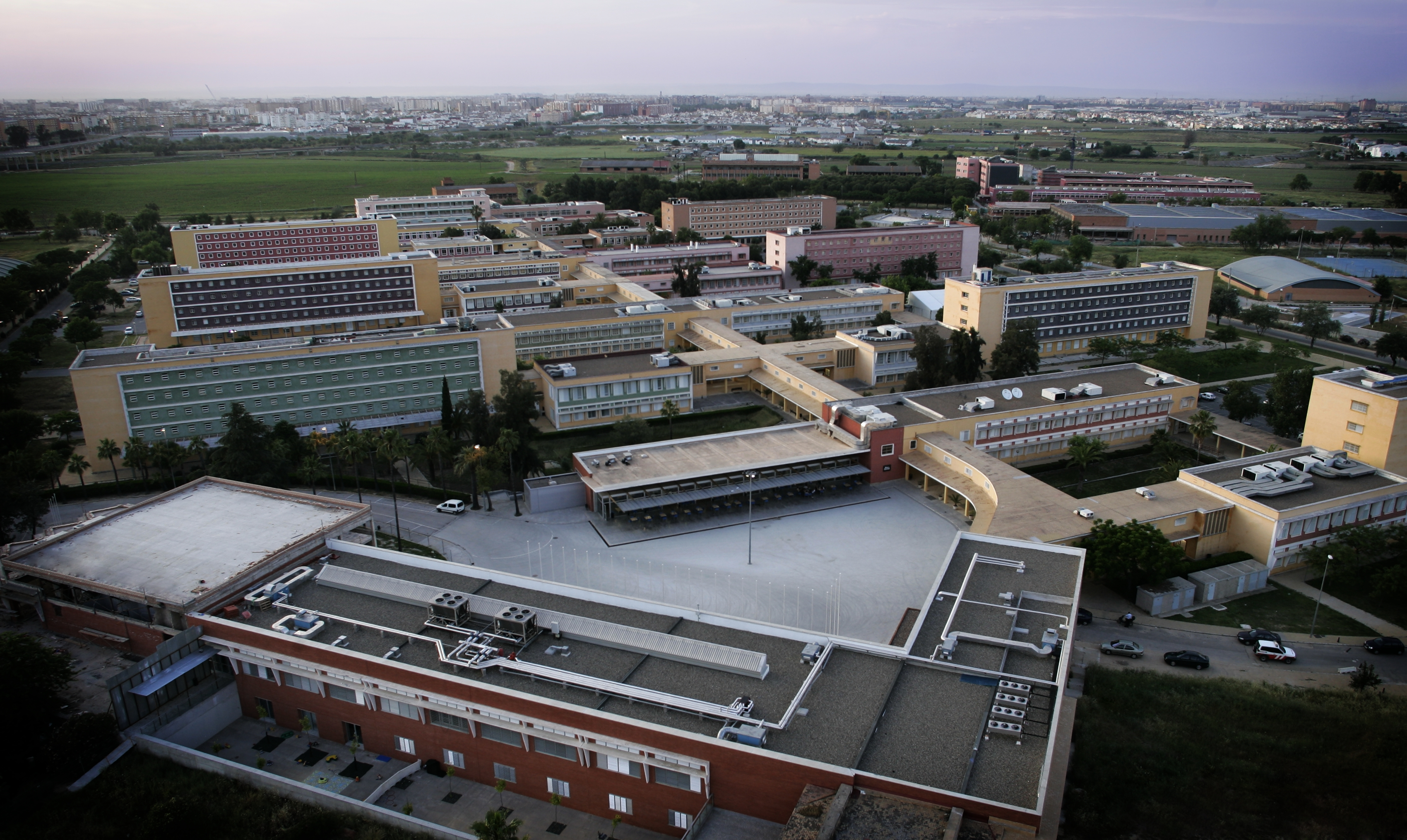 UPO Campus